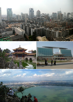 Montage of various Kunming images